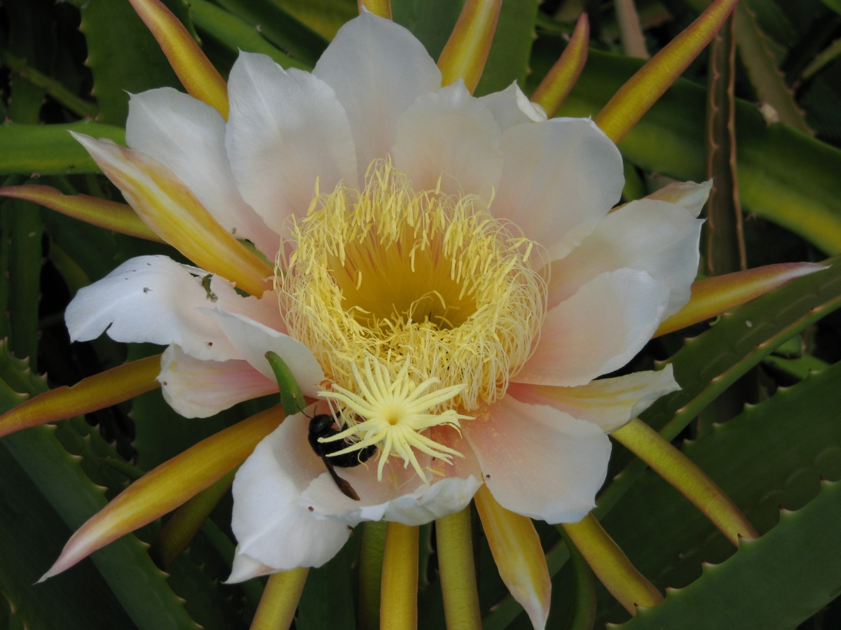 Hylocereus monacanthus with a giant bee inside! photo taken at dawn, the bloom is looking a bit worse for wear, having been invaded by insects attracted by its powerful fragrance all night. Moir Gardens, Poipu, Kaua'i